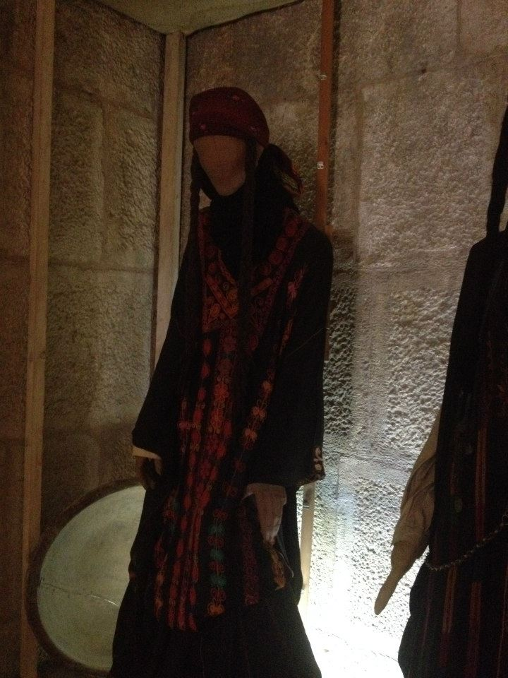 زي شعبي أردني في متحف المدرج الروماني